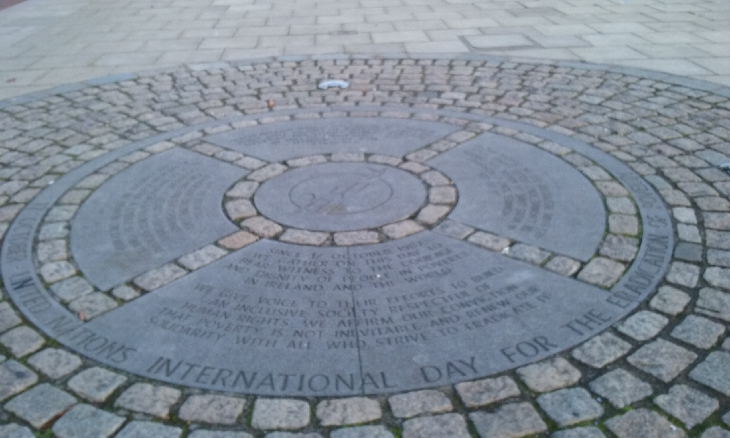 World Poverty Stone on Custom House Quay D 1 by Stuart McGrath 2008